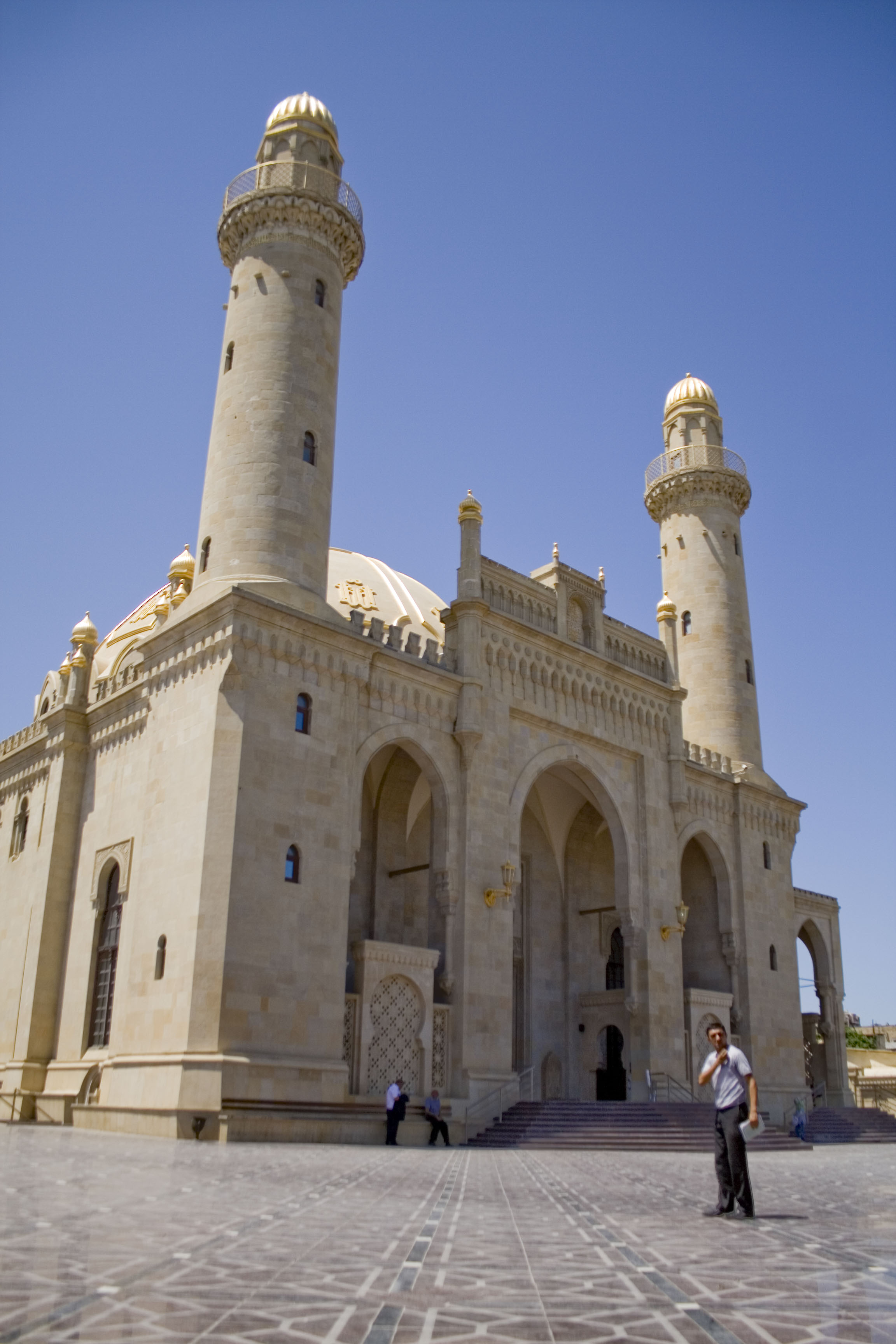 A new mosque in Baku, Azerbaijan. On the west end of Tolstoy street.